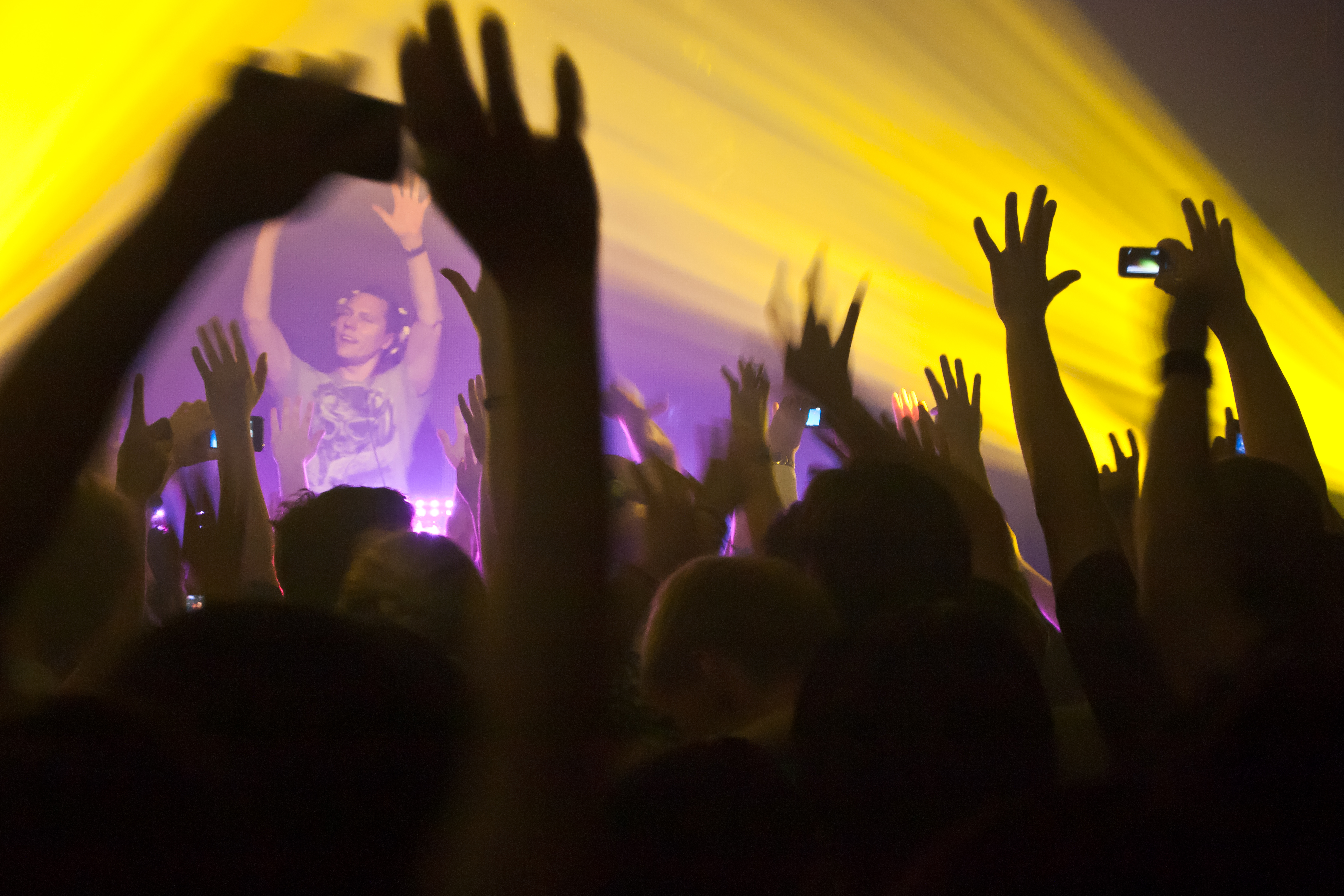 Tiesto, Tiësto, Tijs Michiel Verwest, a Dutch DJ and record producer.